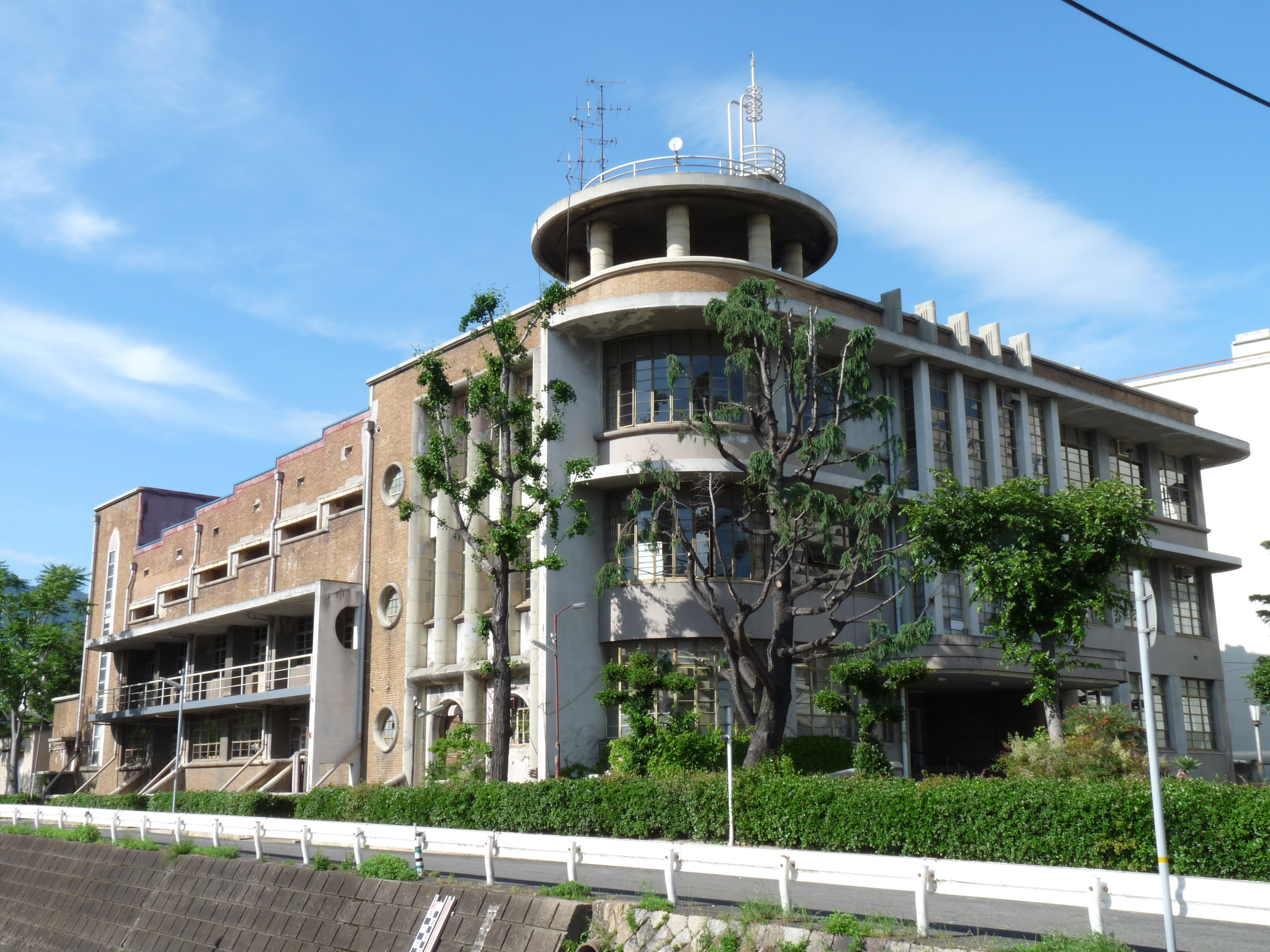 Mikage Public Hall, Kobe, Japan